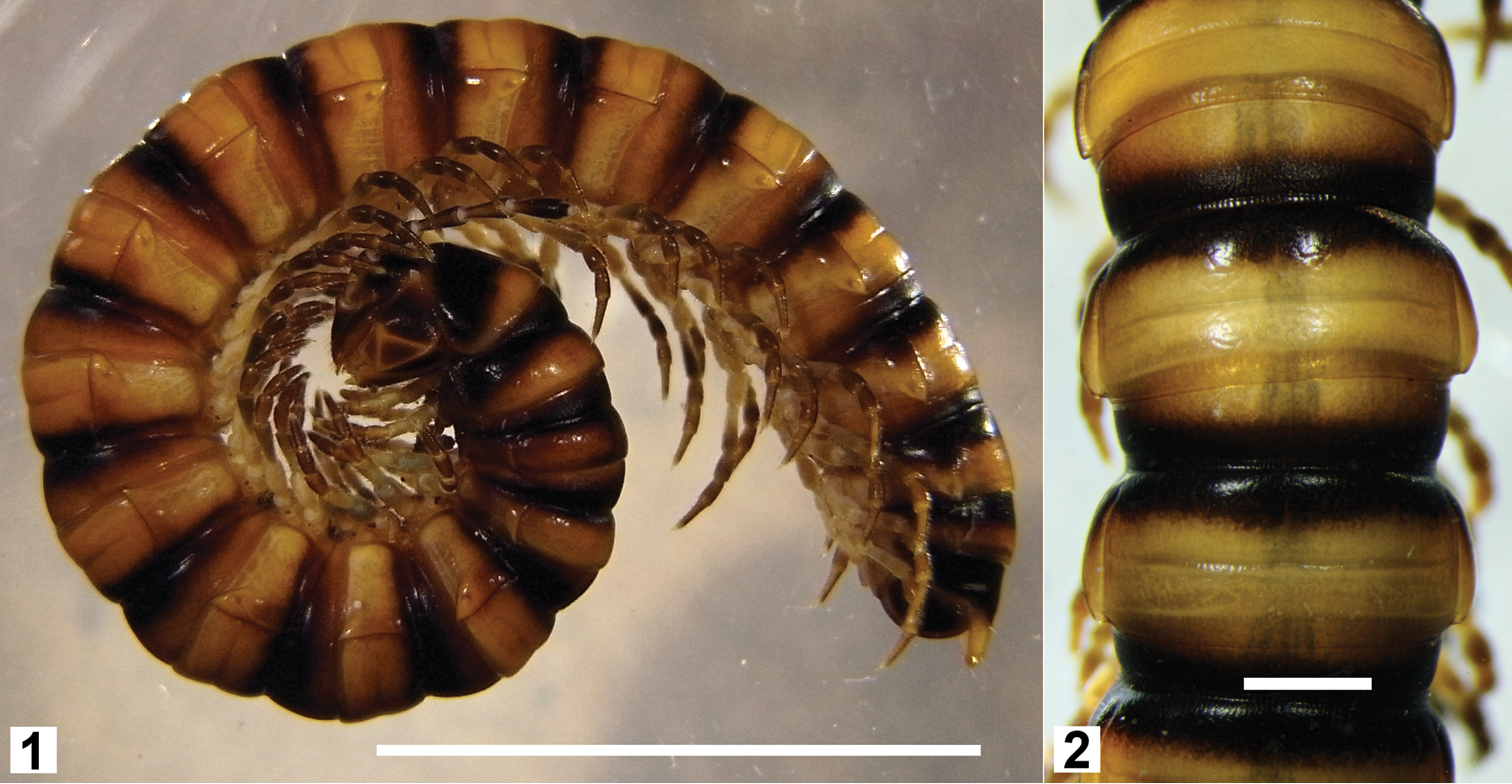 Hoplatessara luxuriosa (Silvestri, 1895), female ex AM KS.120531. Whole animal (1, scale bar = 10 mm) and dorsal view of midbody rings (2, scale bar = 1 mm).